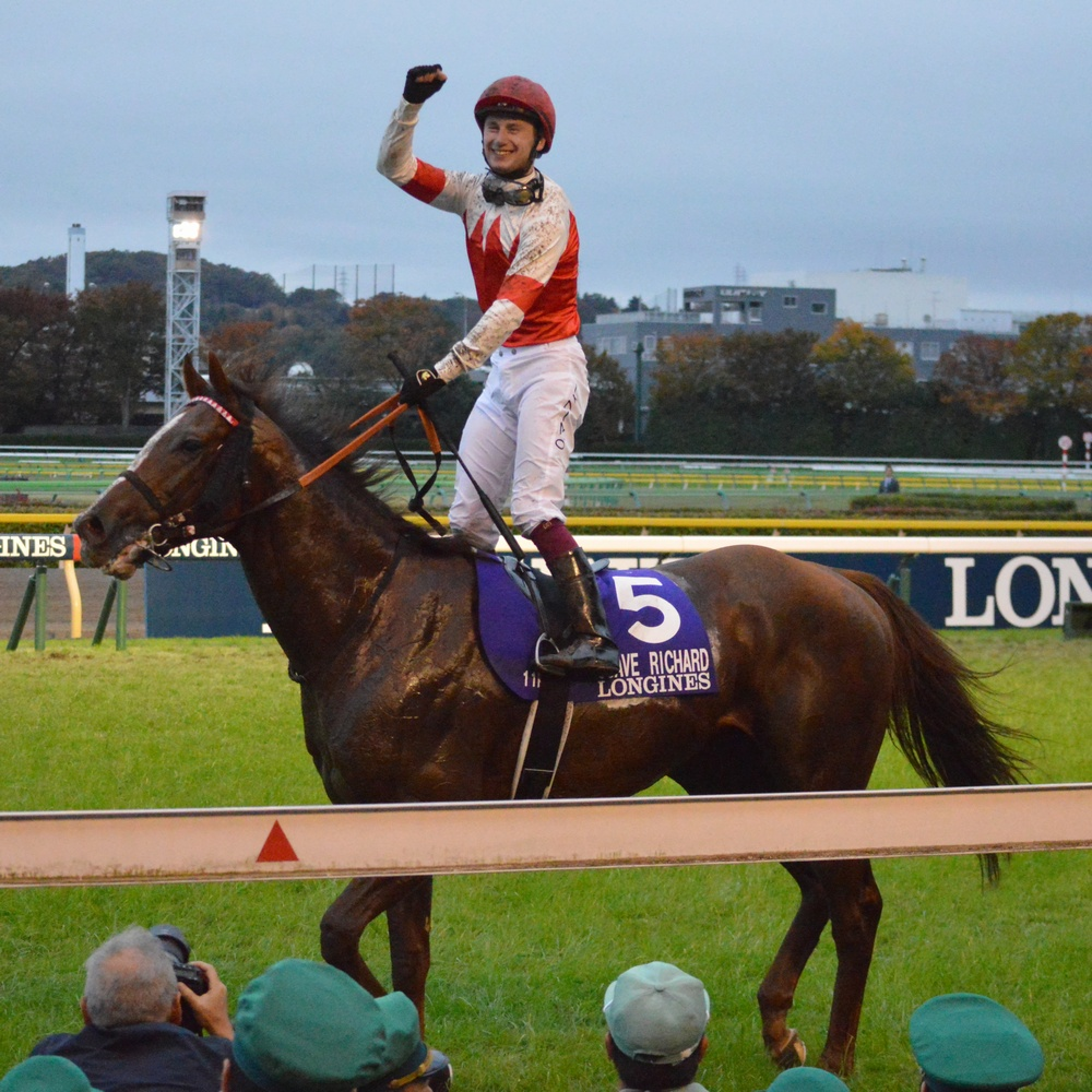 Japanese race horse Suave Richard at Tokyo racecourse. Tokyo (JPN) 24 Nov 2019Japan Cup (Grade 1) (3yo+) (Turf) 1m4f Yielding RankHorse NameOddsAgeWgtJockeyTrainer1stSuave Richard (JPN)41/10H557Oisin MurphyYasushi Shono2ndCurren Bouquetd'or (JPN)95/10F353Akihide TsumuraSakae KuniedaOthers are omitted. (15 horses entered in a race.)